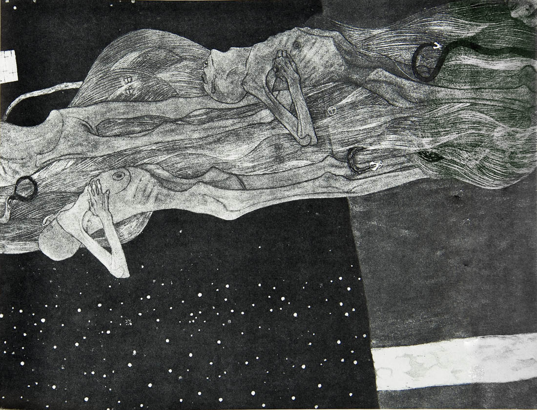 “Procession of the Dead”, by Gustav Klimt, 1903. Confiscated by the Nazis from the Jewish Lederer family. Burnt in Schloss Immendorf, Austria in 1945. The fire was set by retreating SS forces. - Dimensions: 48 x 63 cm - Oil on canvas